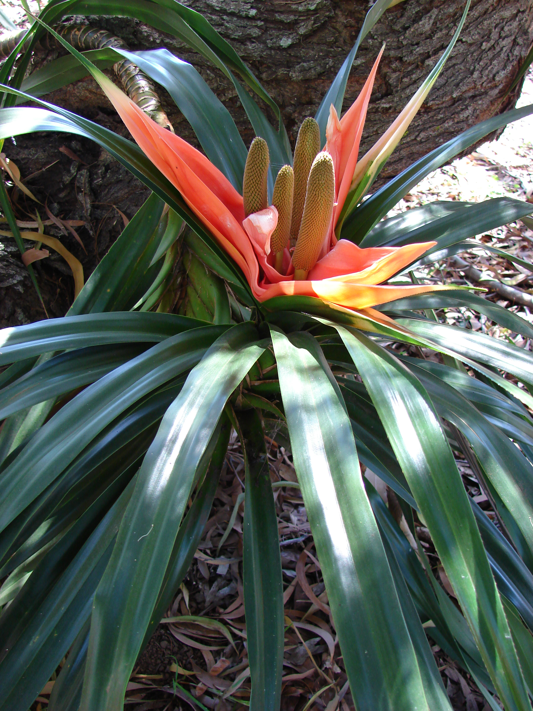 Freycinetia arborea (flower). Location: Maui, Hanamu Rd Makawao